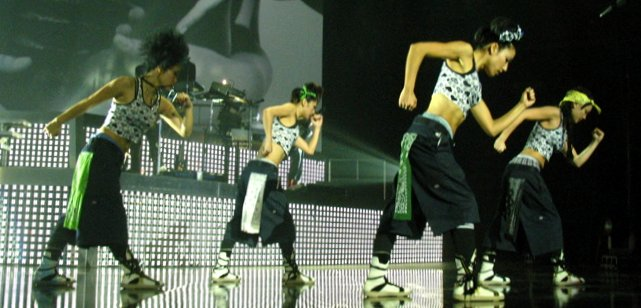 Gwen Stefani's Harajuku Girls performing in Duluth, Georgia, United Statesstop..... harajuku time